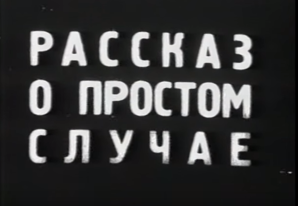 Screenshot from USSR movie "A Simple Case". 1930 year.